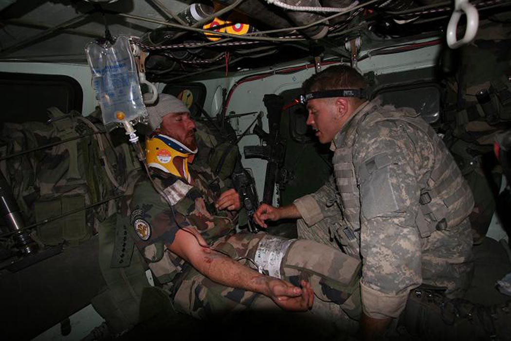 U.S. Army Spc. Nicholas Colgin, right, from Chesterfield, Va., treats a wounded French army soldier following an ambush in the Kapisa province of Afghanistan Nov. 10, 2007. Colgin was credited by coalition hosptal officials with saving the soldier's life. (U.S. Army courtesy photo) (Released)